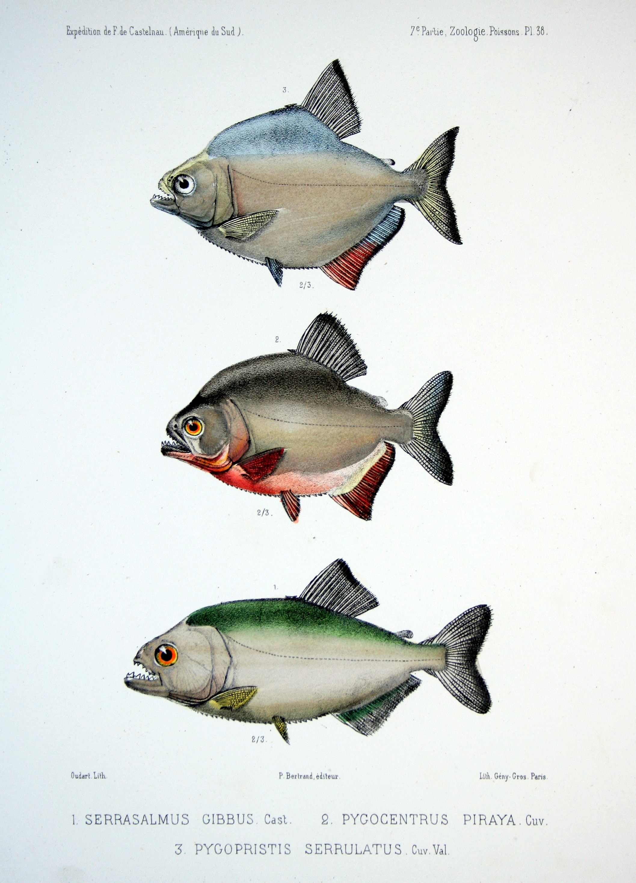 From top to bottom: Pygopristis serrulatus = Serrasalmus serrulatus Pygocentrus piraya Serrasalmus gibbus